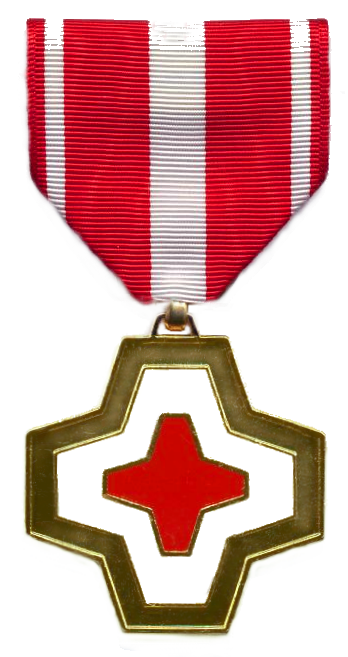 Life Saving Medal, from the Republic of Vietnam (South Vietnam) issued to South Vietnamese and foreign soldiers and civilians.